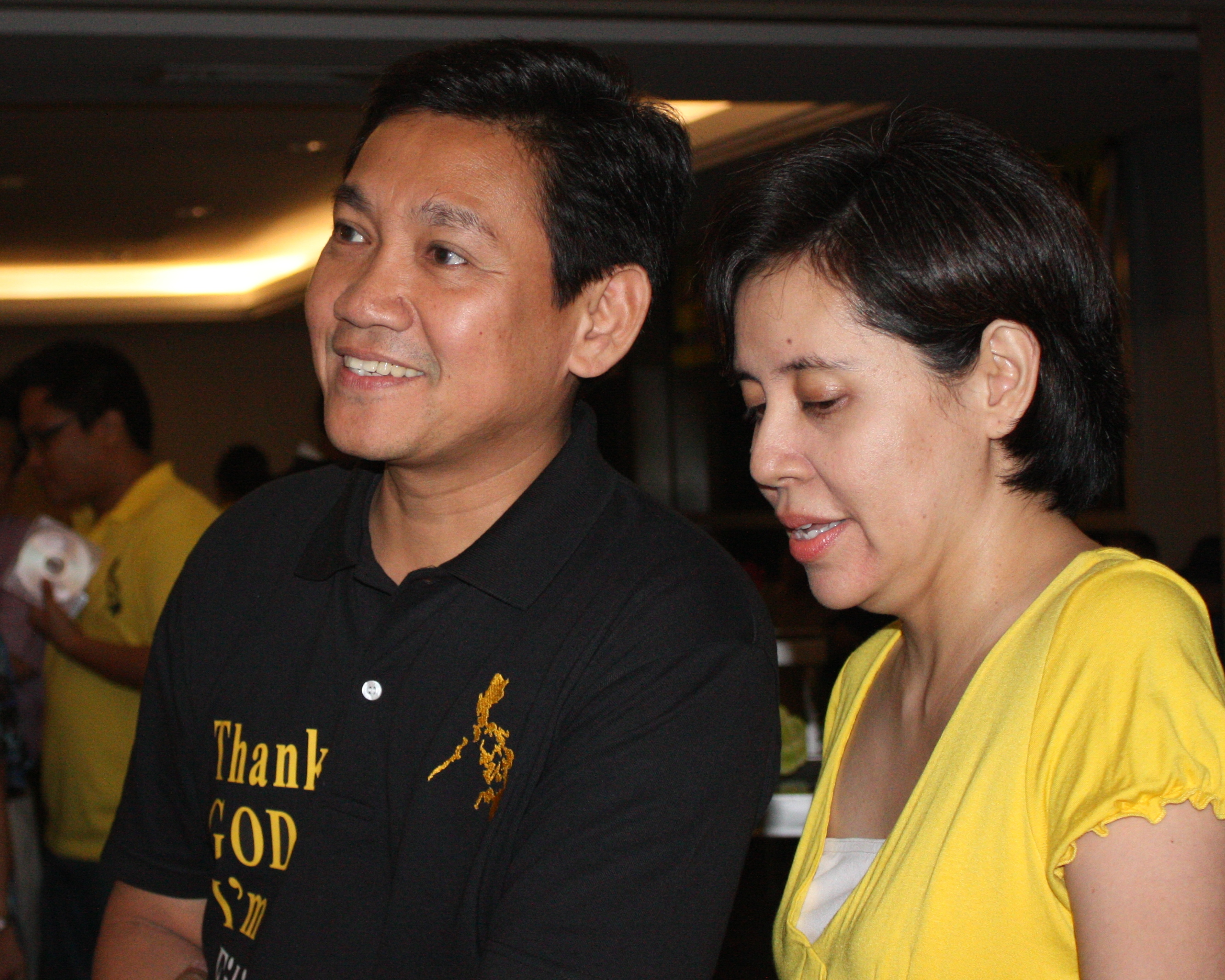 Alexander and Pia Lacson at a fund raising event for the 2010 Philippine Senatorial Elections.